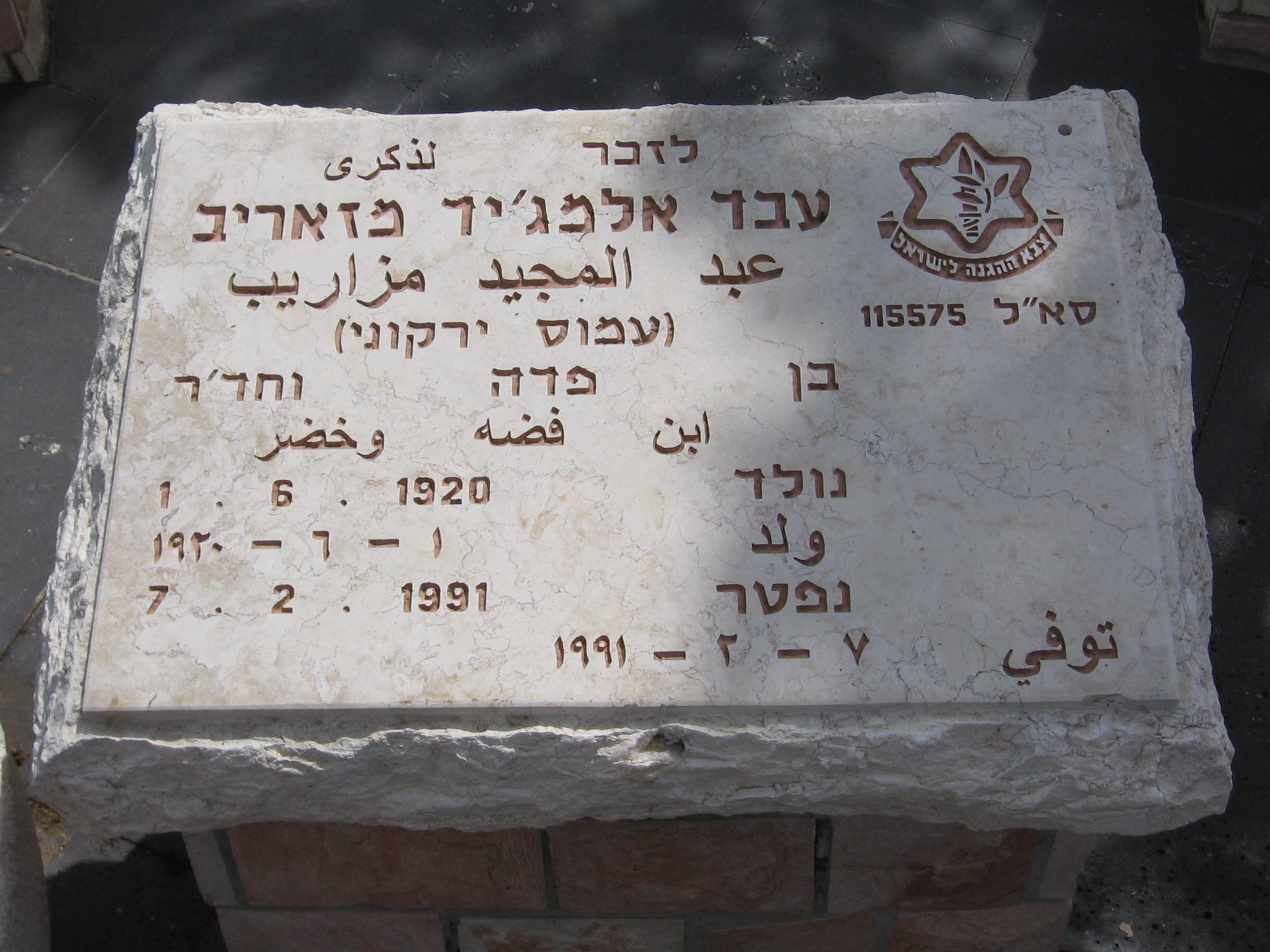 Bedouin Soldiers Memorial